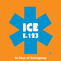 Official logo of ITU-T Recommendation E.123